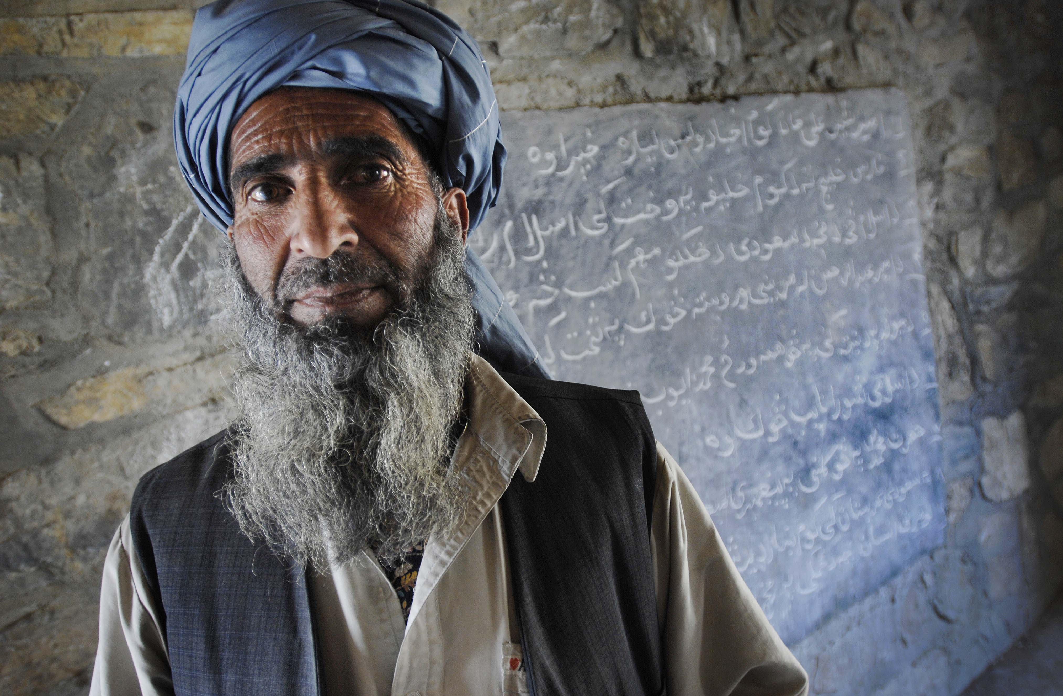 A teacher stands in front of a history lesson written on a chalkboard inside a village school in Jalrez Valley, Wardak province, Afghanistan, March 11, 2009. The school is next to a U.S. combat outpost and troops have been helping by funding renovations.